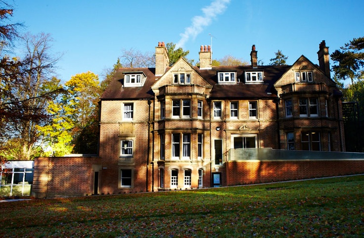 EF Academy Oxford Campus